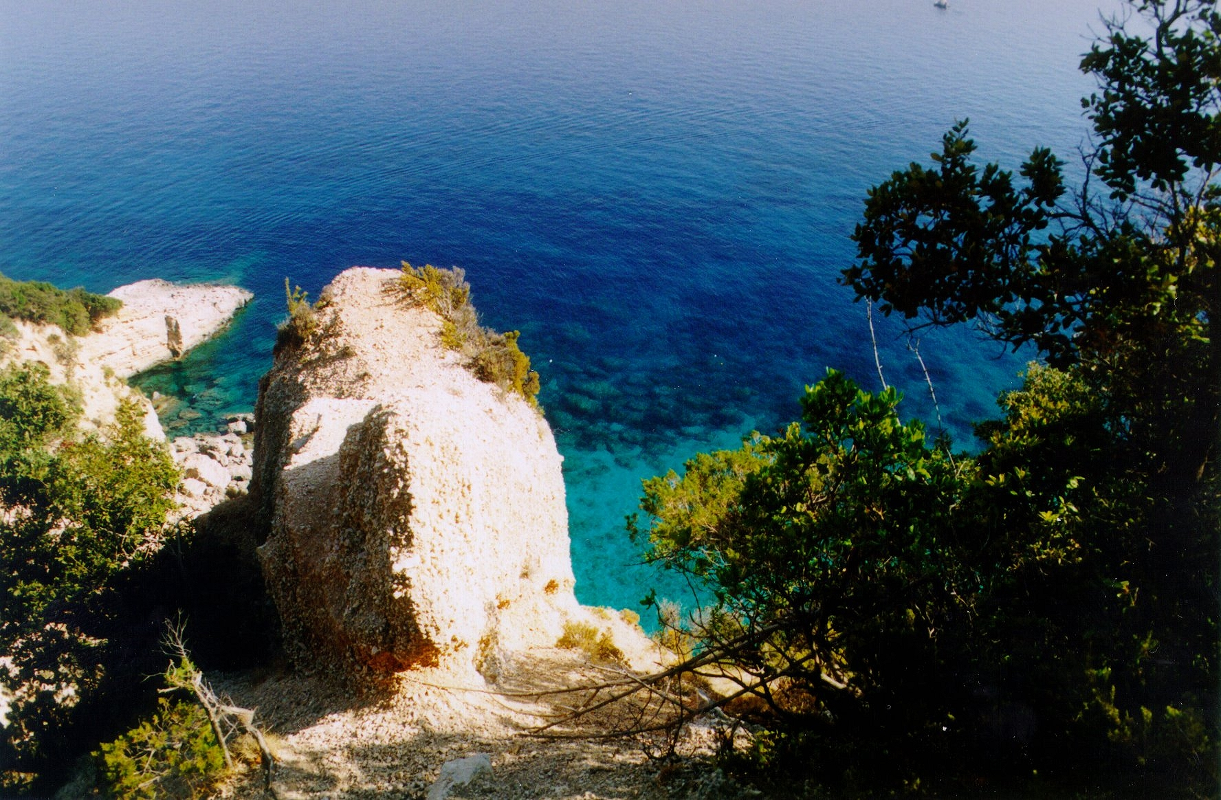 The coast of Ispuligidenie (Golfo di Orosei, Sardinia, Italy) view from the cliff